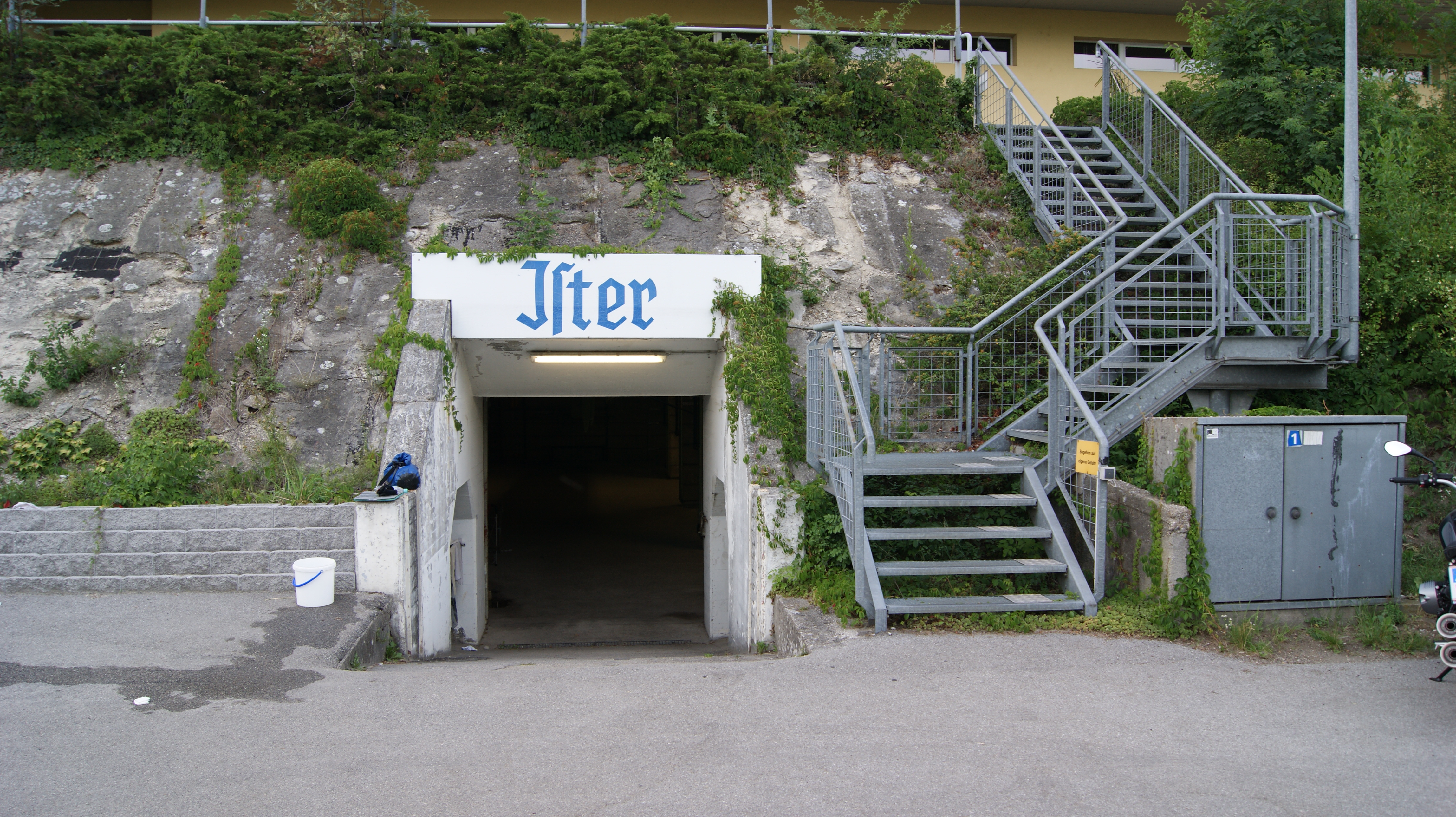 World War II air raid bunker in Linz, Am Winterhafen, Upper Austria, Austria.